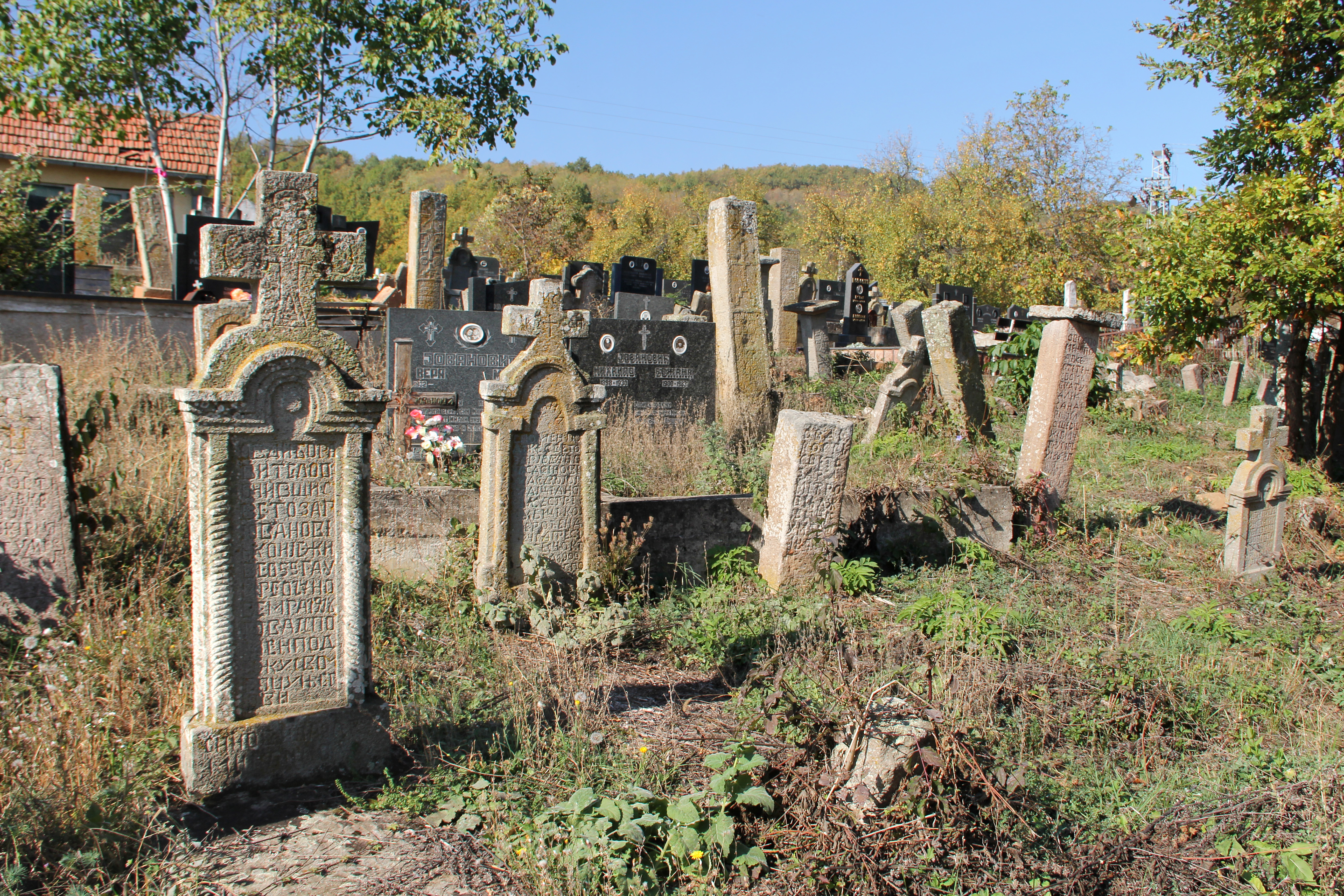 Old gravestones at the cemetery in the village of Prnjavor (the municipality of Gornji Milanovac), Serbia.